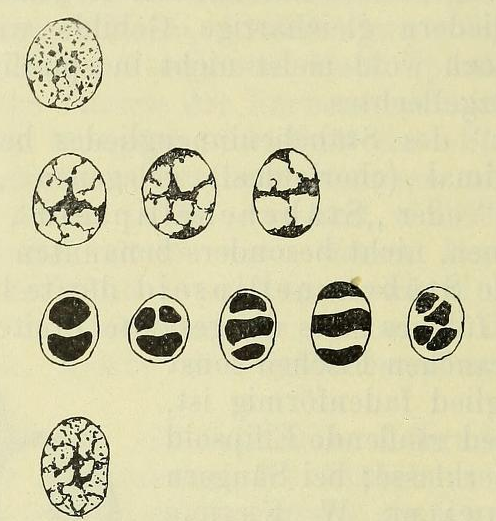 Inverted rod nuclei as seen by German anatomist Alfred Schaper, 1899.